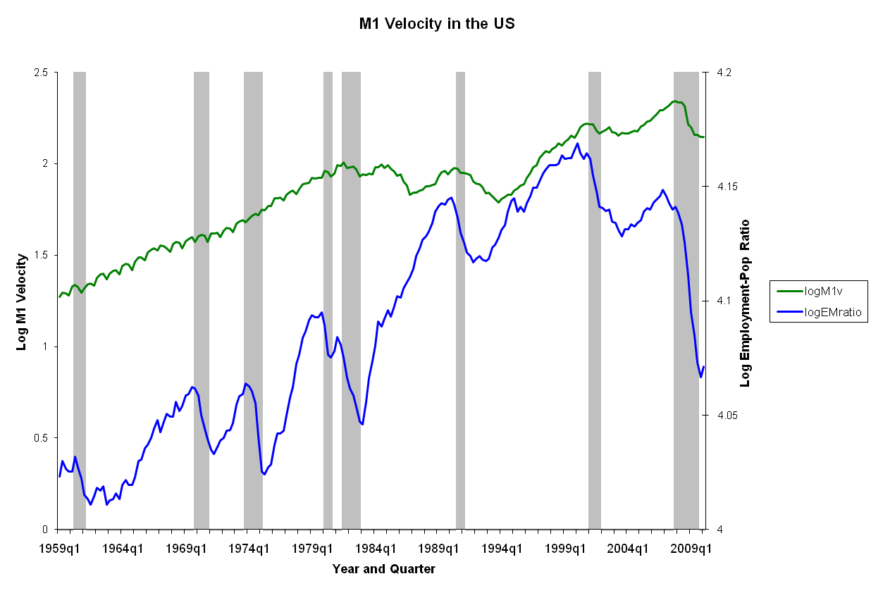 Chart of M1 money velocity and employment-population for the United States. EMratio, nominal GDP, and M1 NSA stock data from Federal Reserve. M1 velocity calculated using nominal GDP divided by M1 stock. Data in logs. NBER Recessions in gray. Created in Excel.